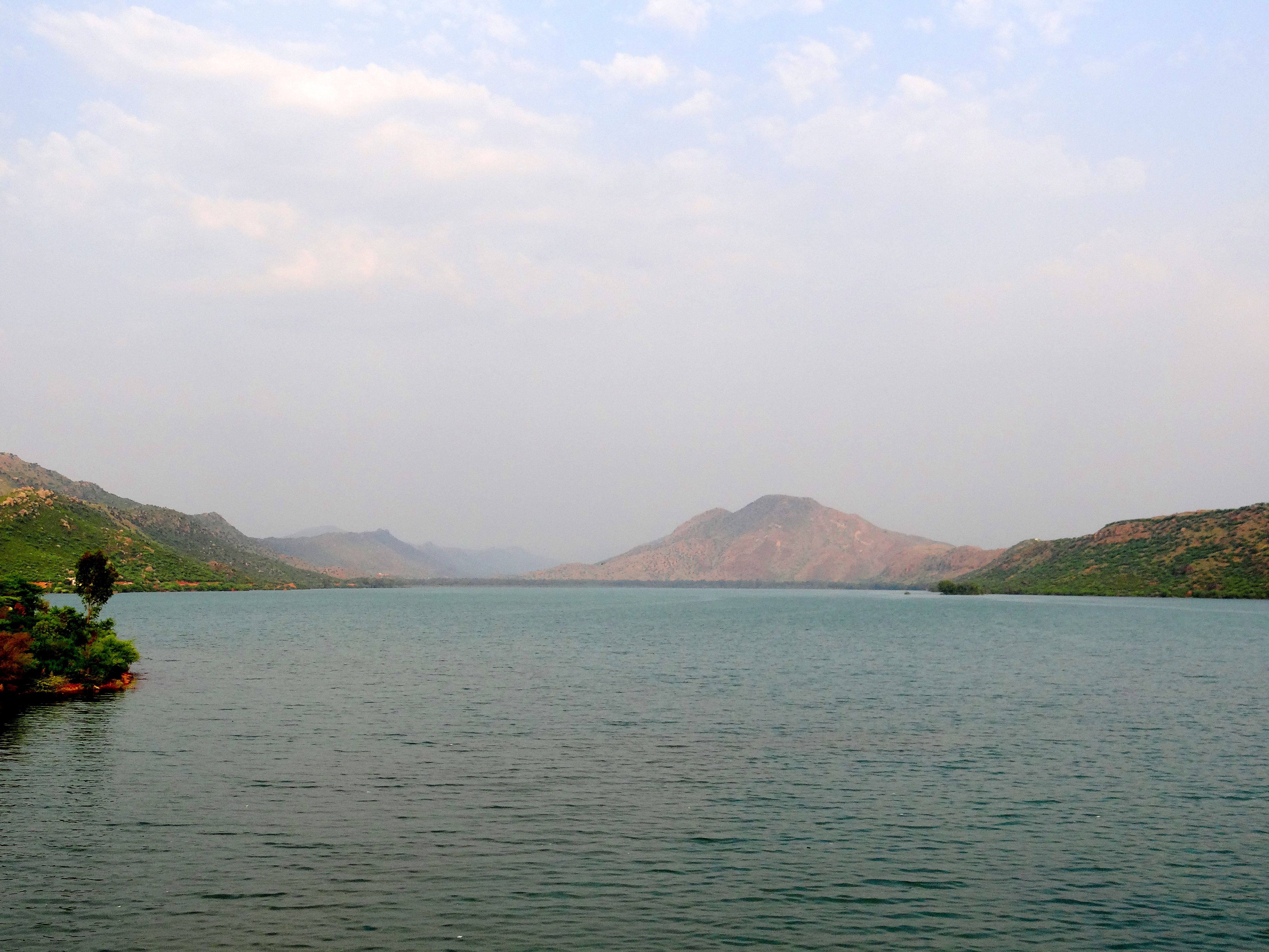 Tanda dam is an irrigation lake reservoir in Kohat district in KPK Pakistan - It has1730 ft height from sea level. Lake can store 78,400 Acre ft of water. Maximum depth of 100ft. Its a beautiful picnic spot for visitors across Pakistan and local areas.